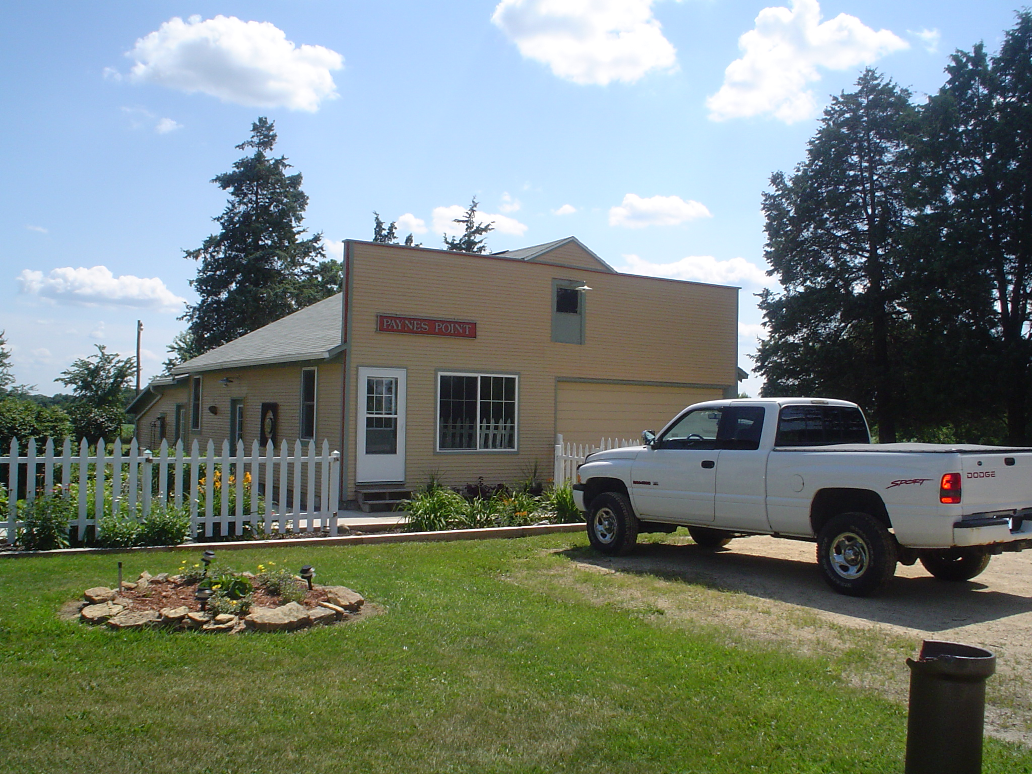 Picture of a store in Paynes Point, Illinois, USA.